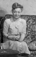 Diana Wells- actriz